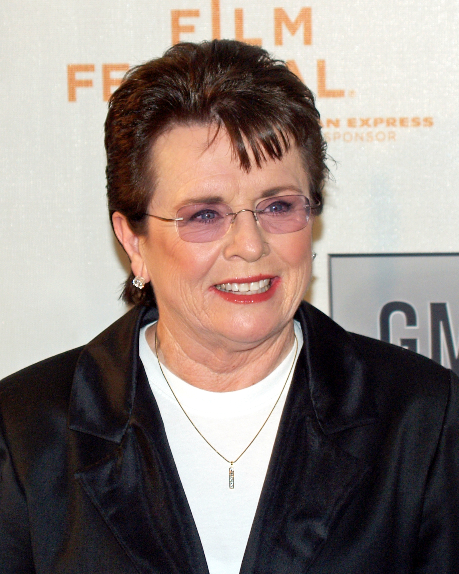 Billie Jean King at the 2007 Tribeca Film Festival.